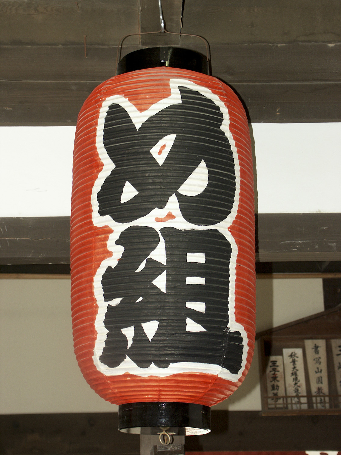 Toei Uzumasa Studios, Kyoto, Japan I contribute my rights in the file to the public domain. People and organizations retain rights to images in the file. Lantern of Megumi firefighters